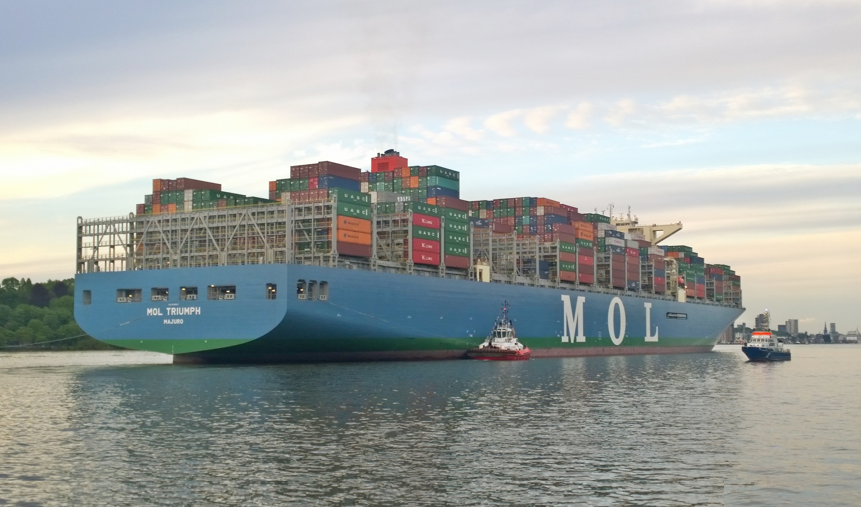 The MOL Triumph in front of Hamburg - rear view